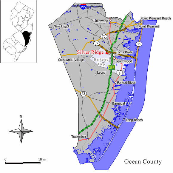 Source: Jim Irwin Original work by Jim Irwin, December 2005.